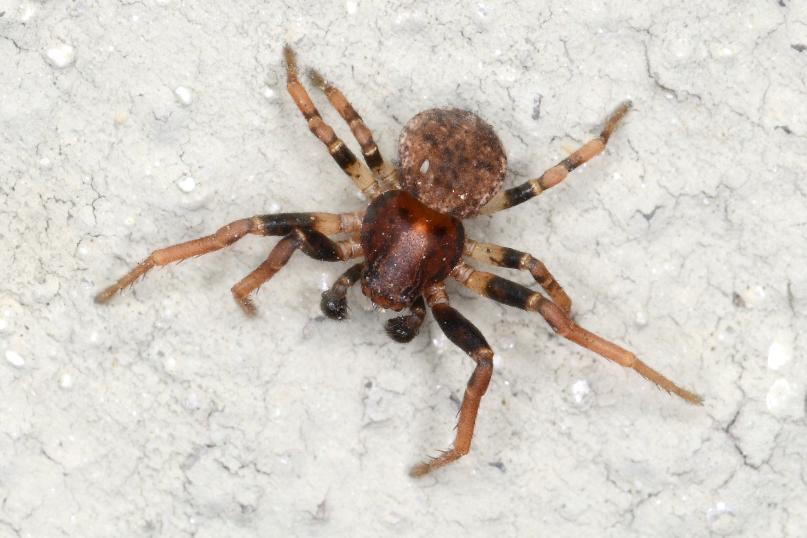 Ozyptila praticola photographed in southern Germany.